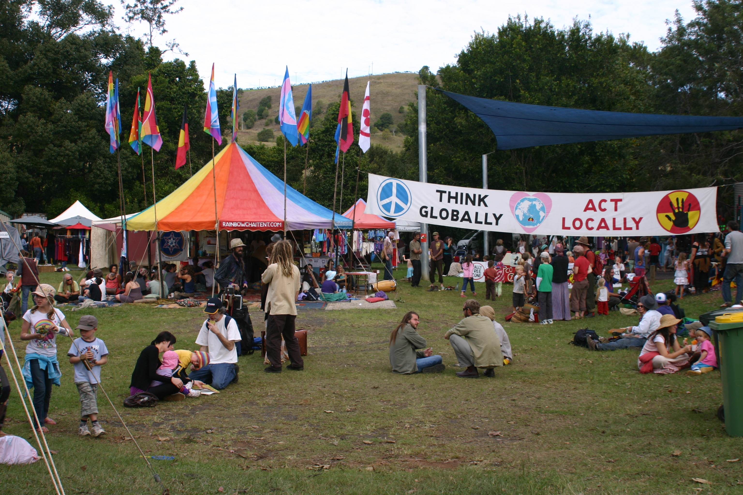 The Channon Markets